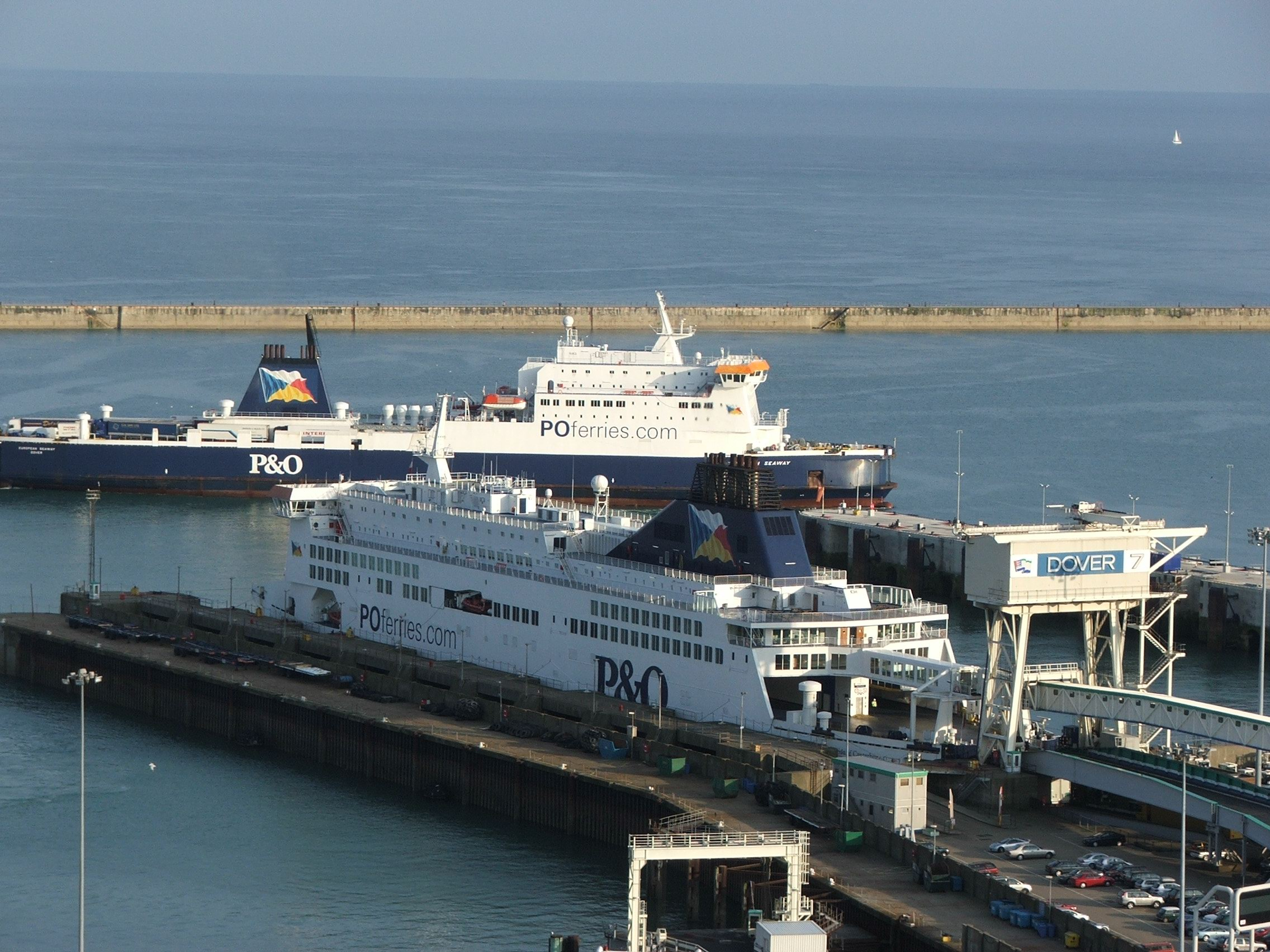 Port in Dover, England European Seaway IMO Number: 9007283 MMSI Number: 232001040 Callsign: MPDG3 Length: 175 m Beam: 30 m Pride Of Canterbury IMO Number: 9007295 MMSI Number: 232001060 Callsign: MPQZ6 Length: 180 m Beam: 28 m